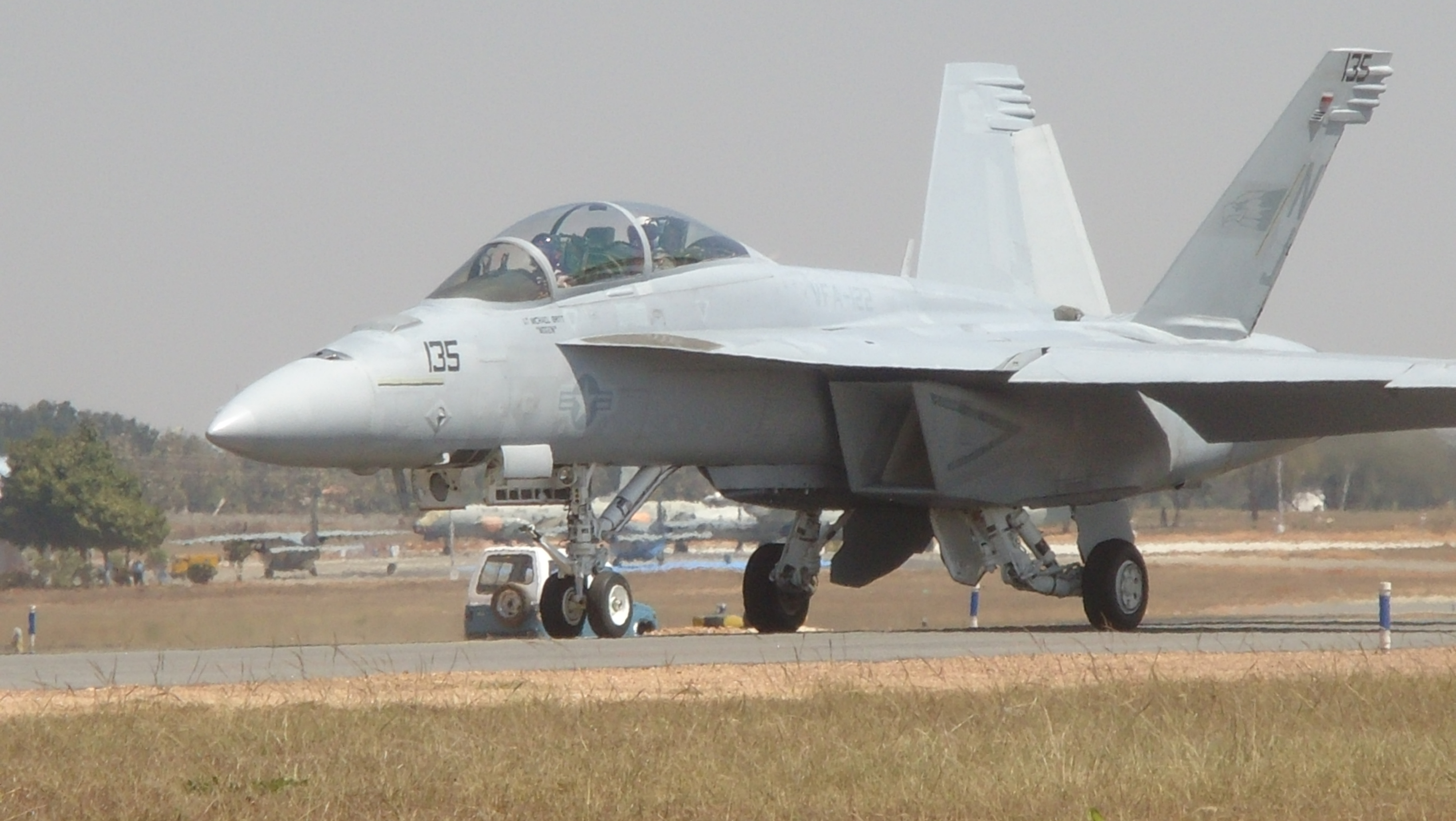 F 18 Super Hornet, Taxies to the runway for take off at Aero India 2011, Yelahanka air force base Bangalore.